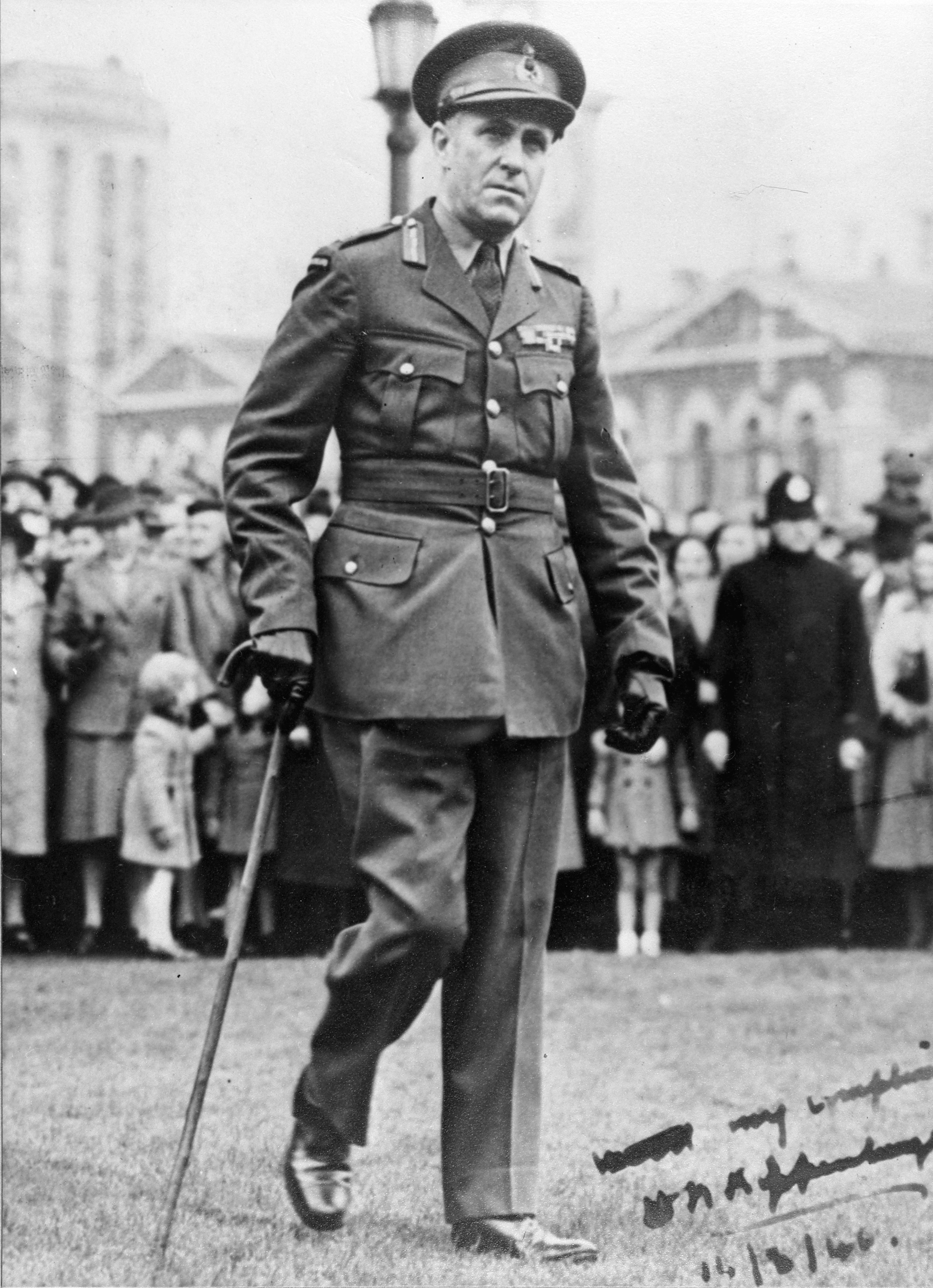 Sir Howard Karl Kippenberger walking in military uniform in front of a crowd. Taken by an unidentified photographer, circa 1946. (Source incorrectly states 1940; note rank tabs/walking stick of subject inconsistent for this time period Howard Karl Kippenberger. Ref: 1/4-017467-F. Alexander Turnbull Library, Wellington, New Zealand. The Crown has released this work under the CC-BY 3.0 NZ license. Refer to source website for details: This work's copyright expired 50 years after creation in New Zealand and probably also in countries following the rule of the shorter term.